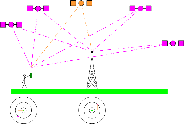 Illustration of Satellite Based Augmentation System.